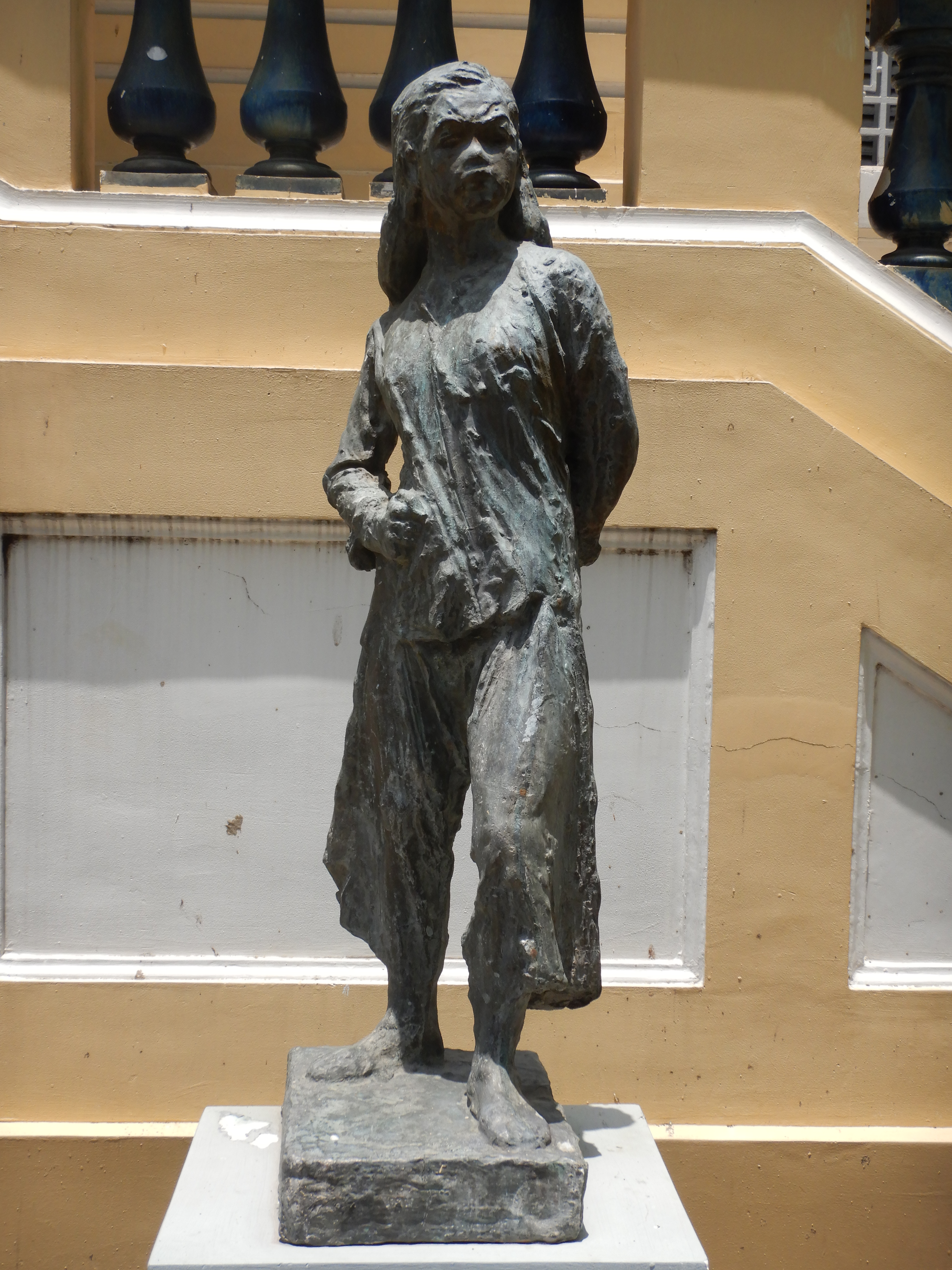 Reproduction of bronze statue "Võ Thị Sáu" in Ho Chi Minh City Museum of Fine Arts. It was made by Diệp Minh Châu in 1958. Dimensions: 130 × 32 cm.